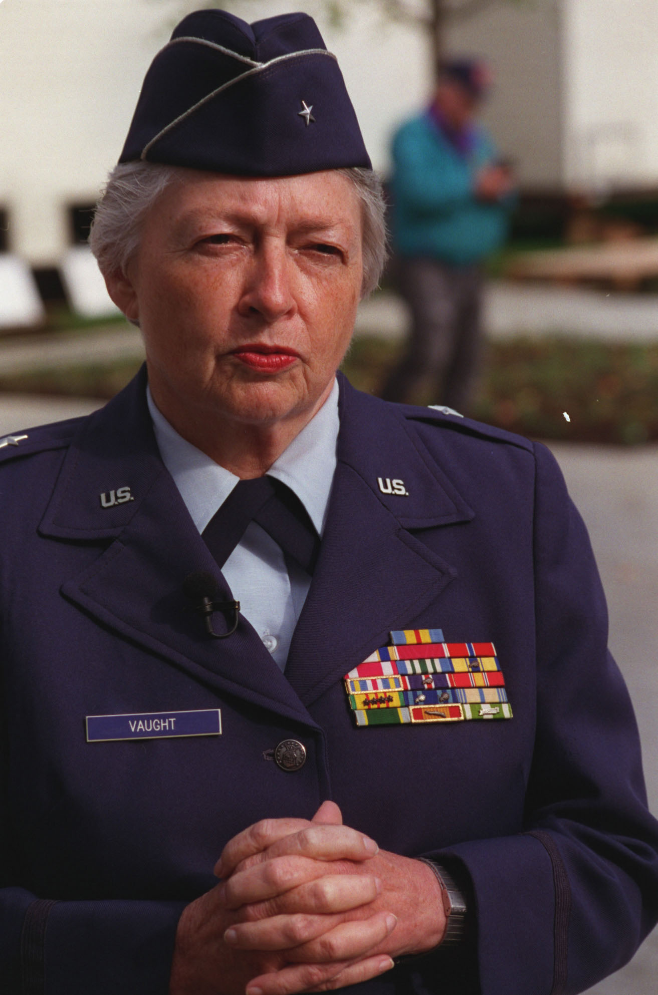 General Wilma L. Vaught, USAF (Ret.), President of the Women In Military Service For America (WIMSA) Memorial Foundation, is interviewed by members of Air Force News at the Dedication of the WIMSA Memorial, October 18, 1997. (Photo by SSgt Renee' Sitler) (Released)